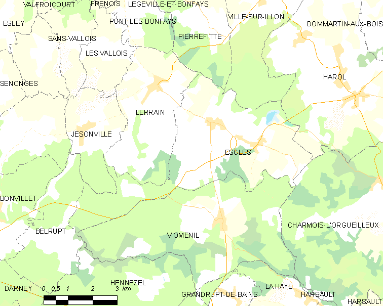 Map of French municipality Escles